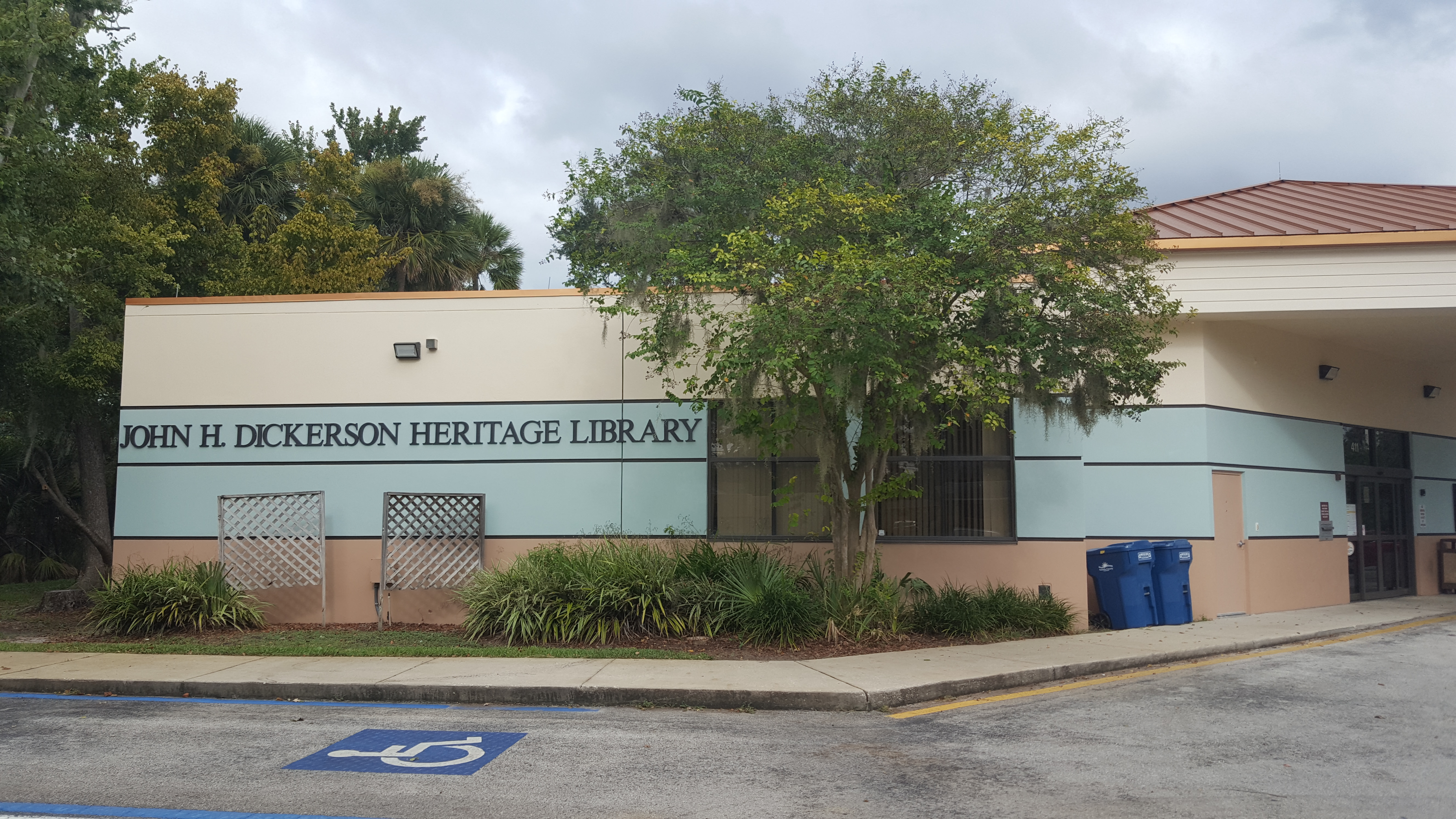 A view of the library from Keech Street.